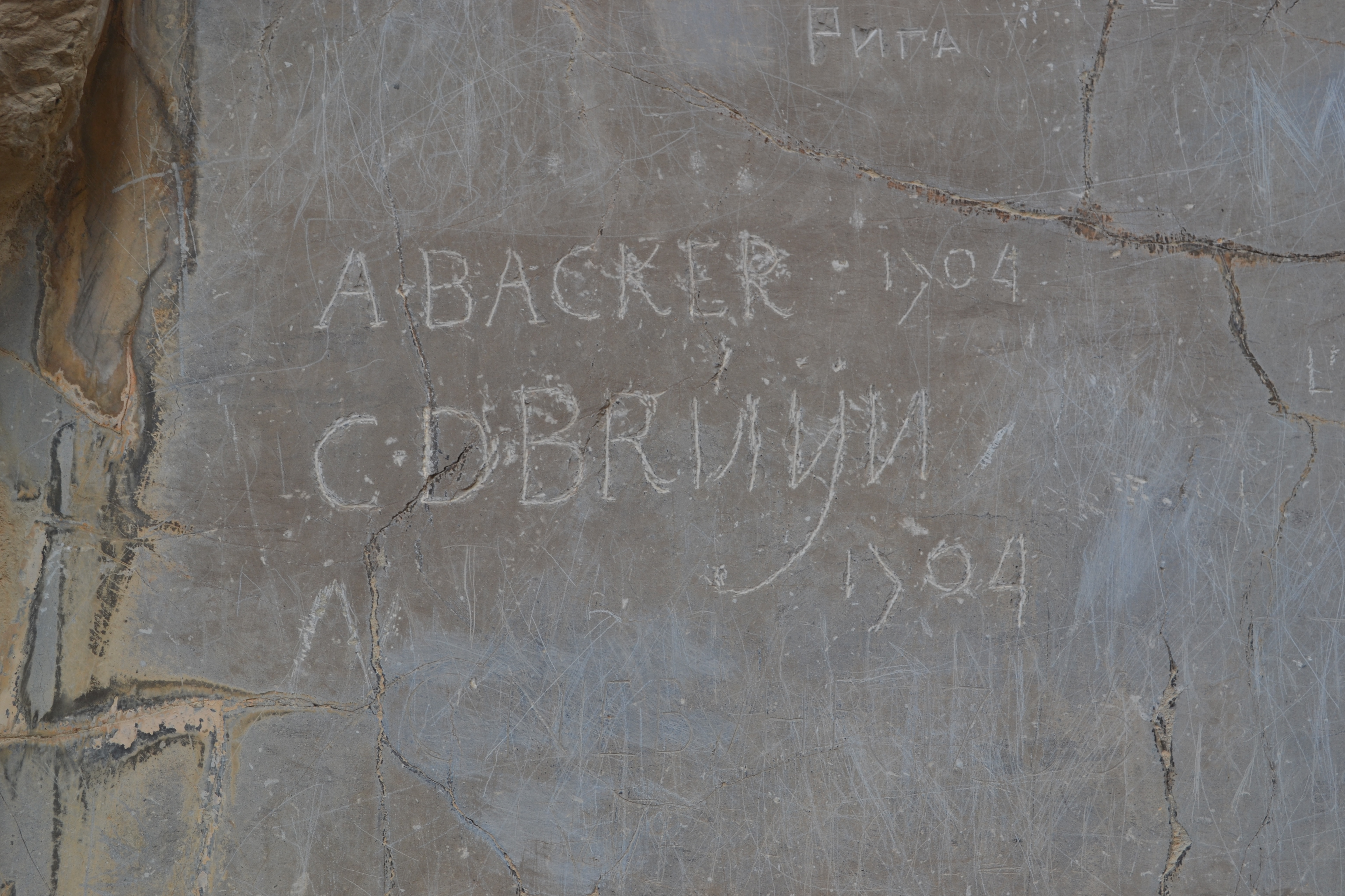 The signature of Cornelis de Bruijn at Persepolis' Gate of all Nations (1704)